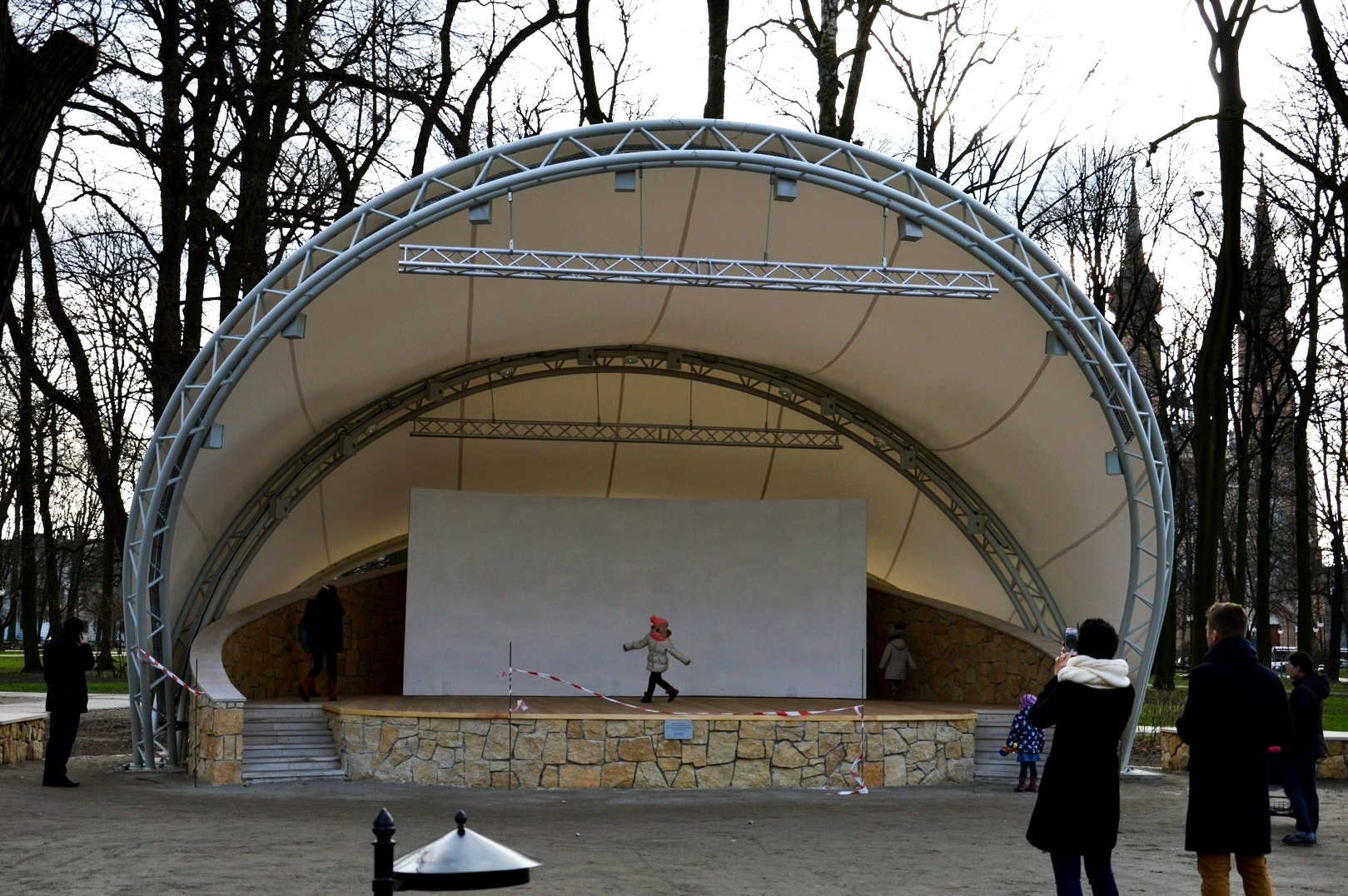 Bandshell in Tadeusz Kościuszko Park in Radom, Poland